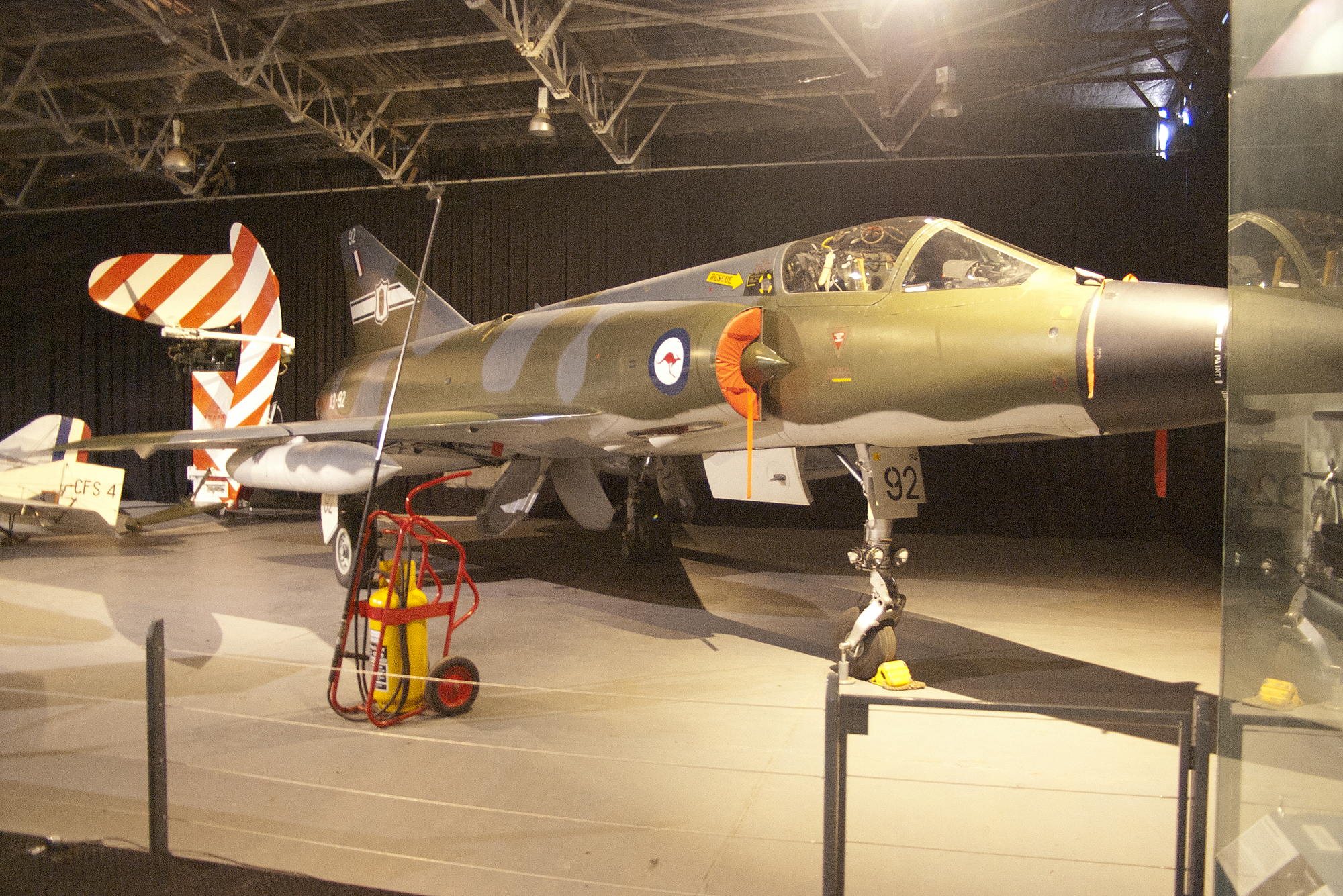 Dassault Mirage III A3-92 on display at the RAAF Museum.